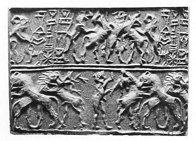 Cylinder seal of Queen Nintur, wife of Mesannipadda